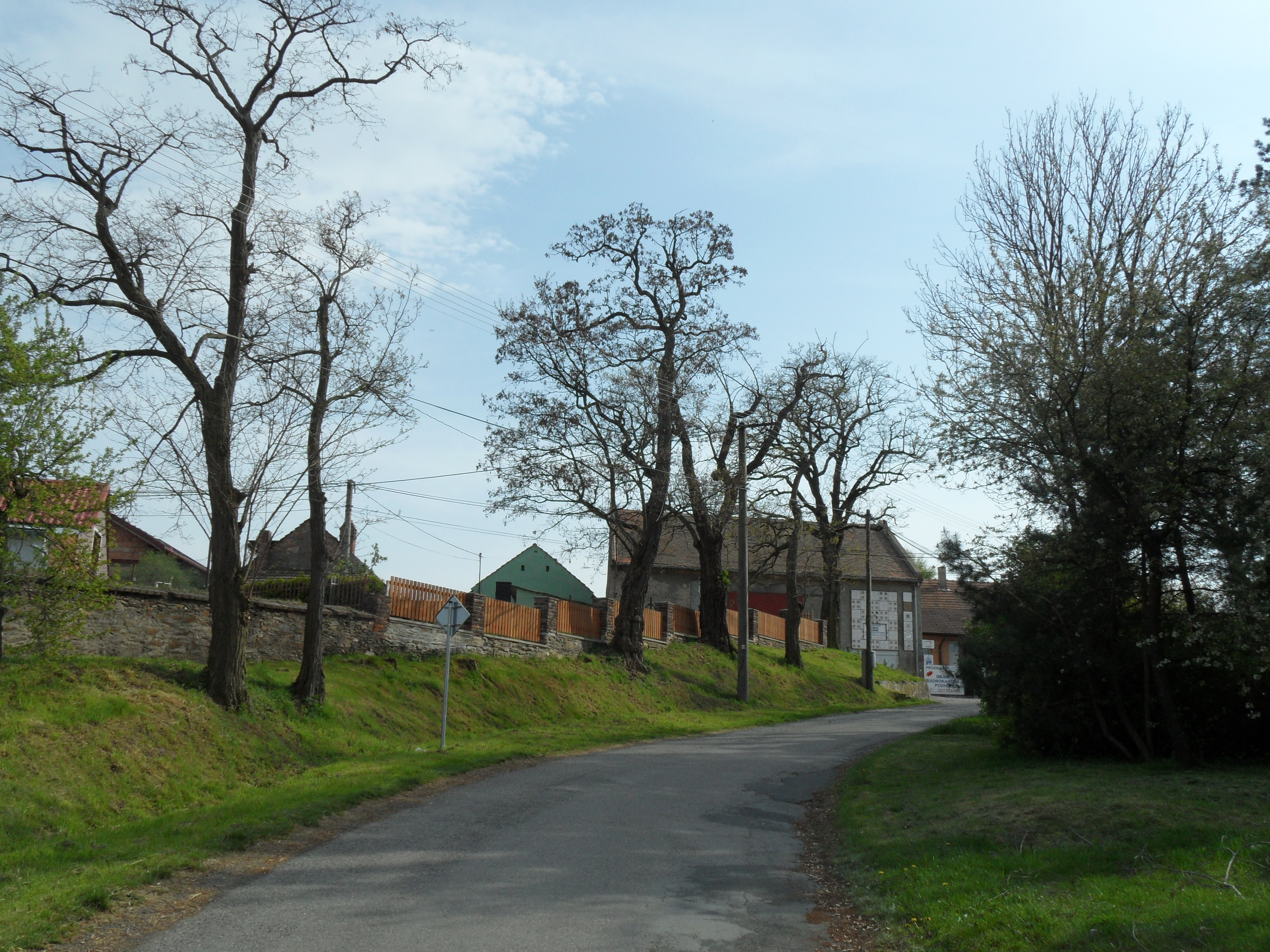 Kamhajek F. Houses Along Main Road, Kolín District, the Czech Republic.